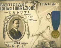 I took a picture of the original certificate given to Eugenio Calo's family, along with the actual gold medal awarded for his military valour. The original certificate, the medal, and this (my) picture - are all issued as public domain.